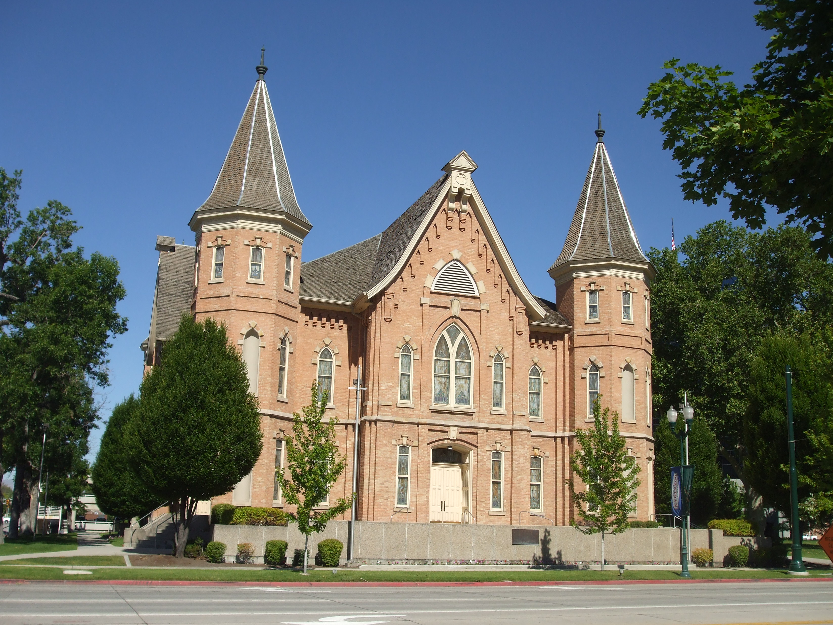 The Provo Tabernacle, an early Latter-day Saint meetinghouse in Provo, Utah, United States.